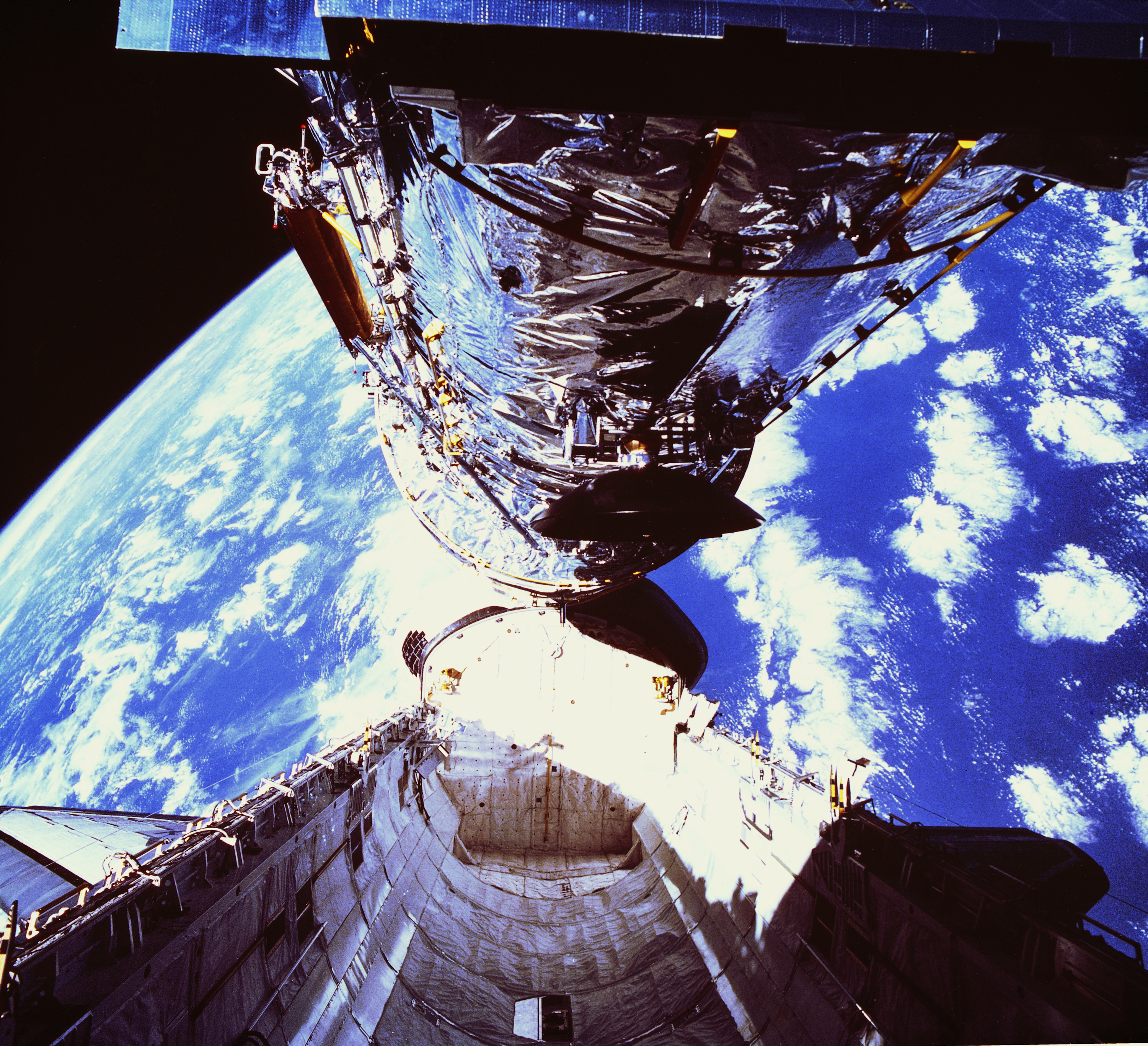 HST is lifted above Discovery's payload bay during STS-31.